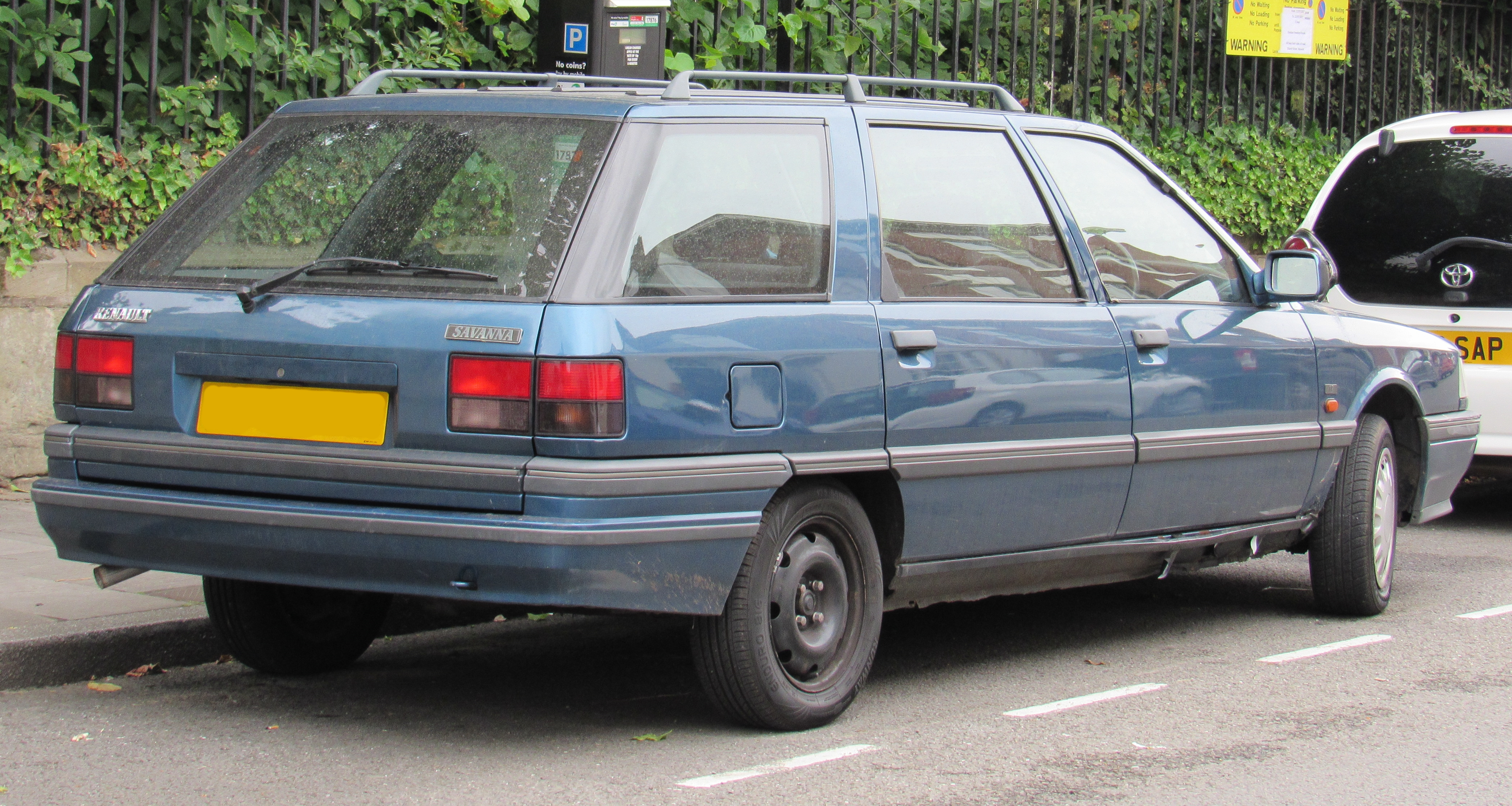 1993 Renault 21 RT Savanna 1.7 Rear Taken in Warwick